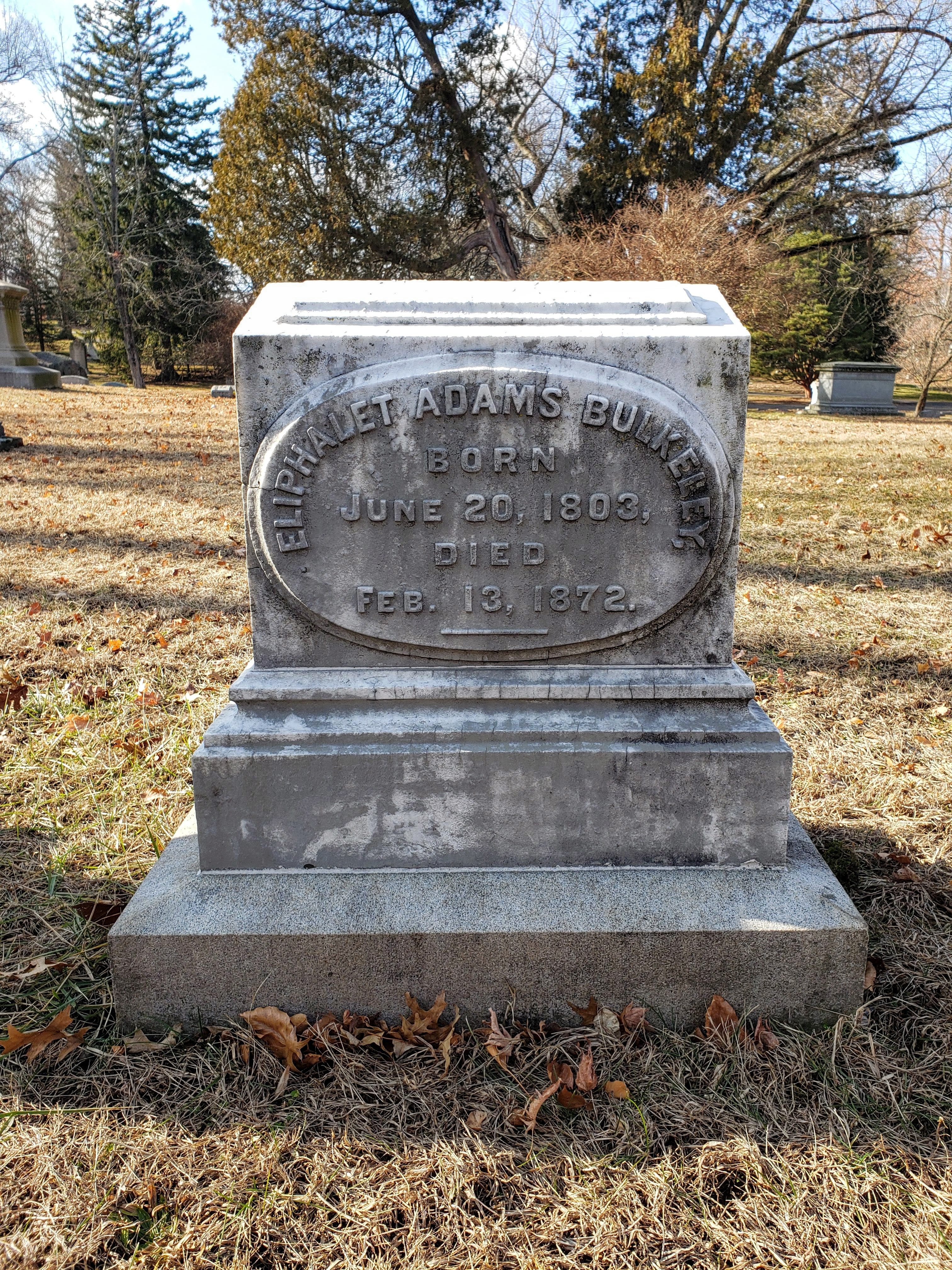 Eliphalet Adams Bulkeley gravestone in Cedar Hill Cemetery in Hartford, Connecticut. Photo taken January 2020.